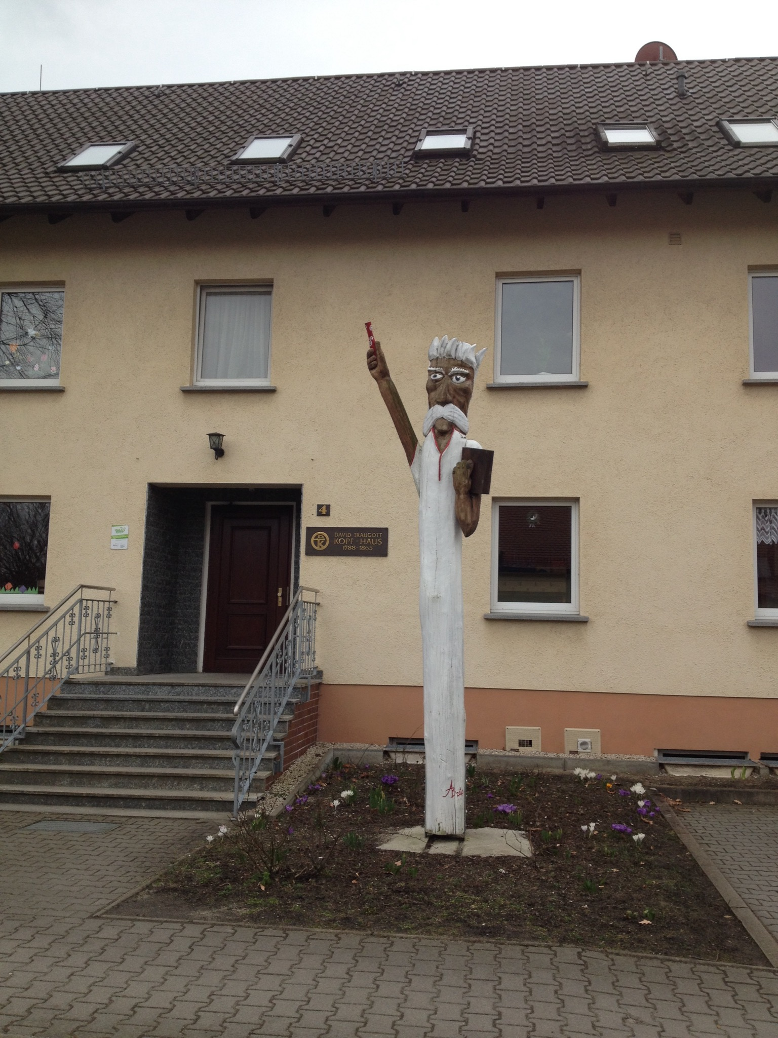 David-Traugott-Kopf-house in Schwarzkollm; a wooden sculpture in front of it